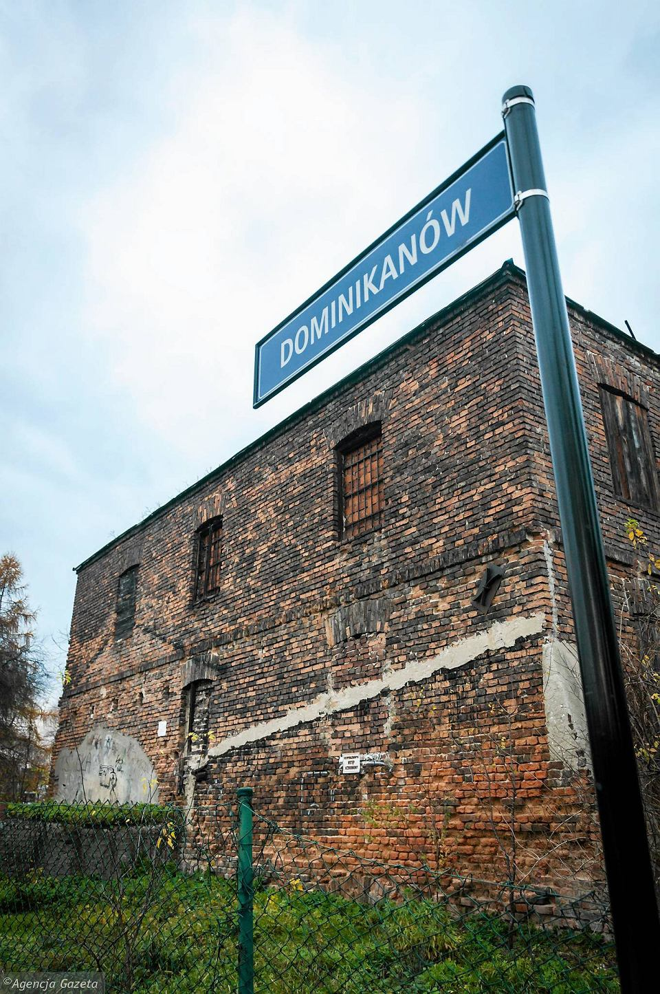 mill in Krakow